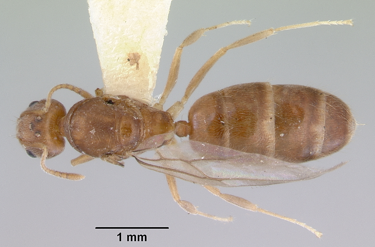 Dorsal view of ant Aneuretus simoni specimen casent0172259.